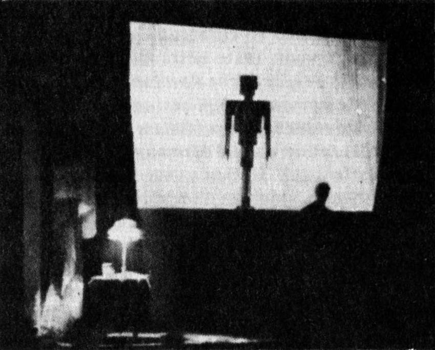 Vilmos Huszar's Simultaneistic-mechanical dance at Dada-soirée, 19 January 1923, held in Amsterdam. From Het Leven (27 January 1923).